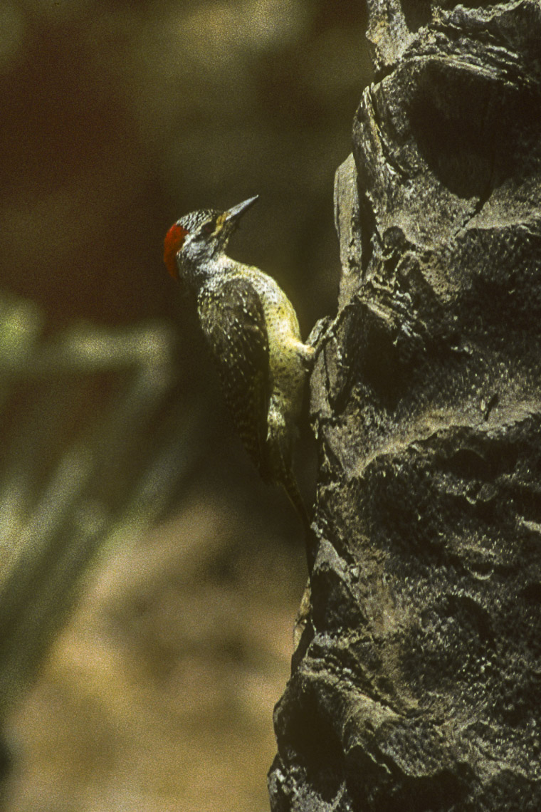 Fine-spotted Woodpecker - Gambia Image17